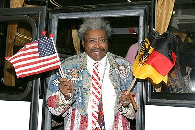 Don King visits staff and patients September 6, 2005, at Landstuhl Regional Medical Center, Germany. LRMC is the largest American hospital outside of the United States, serving more than 245,000 U.S. military personnel and their families within the European Command. LRMC is also the evacuation and treatment center for all injured U.S. servicemembers serving in Afghanistan and Iraq.